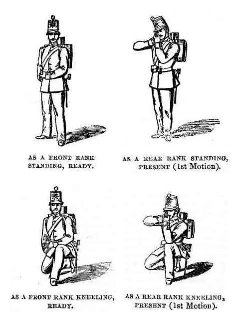 Example view of British field manual about shooting the Snider-Enfield rifle.